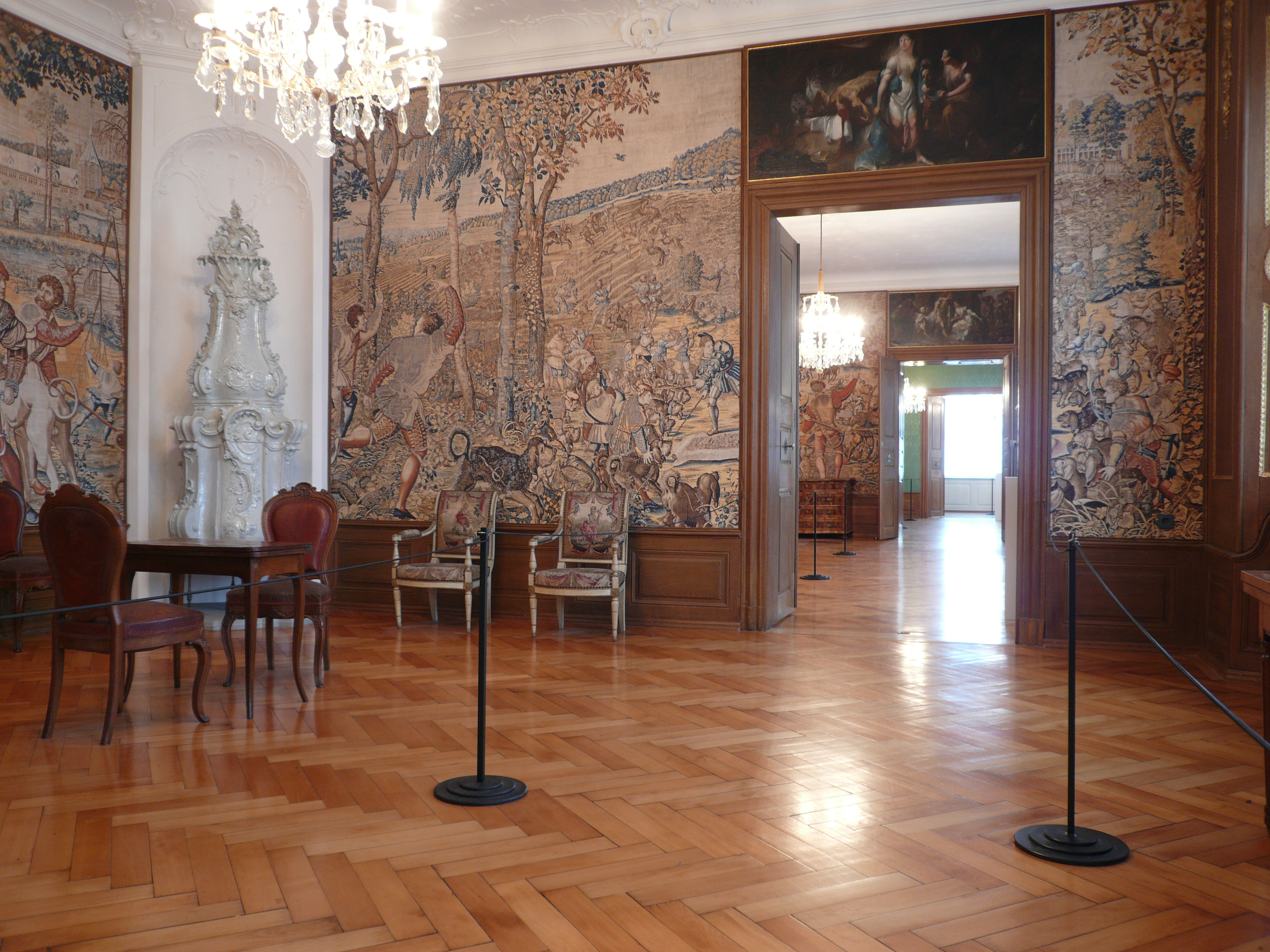 Inside of New Castle at Meersburg